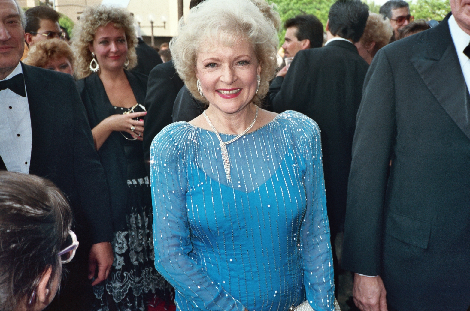 Betty White at the 1988 Emmy Awards.